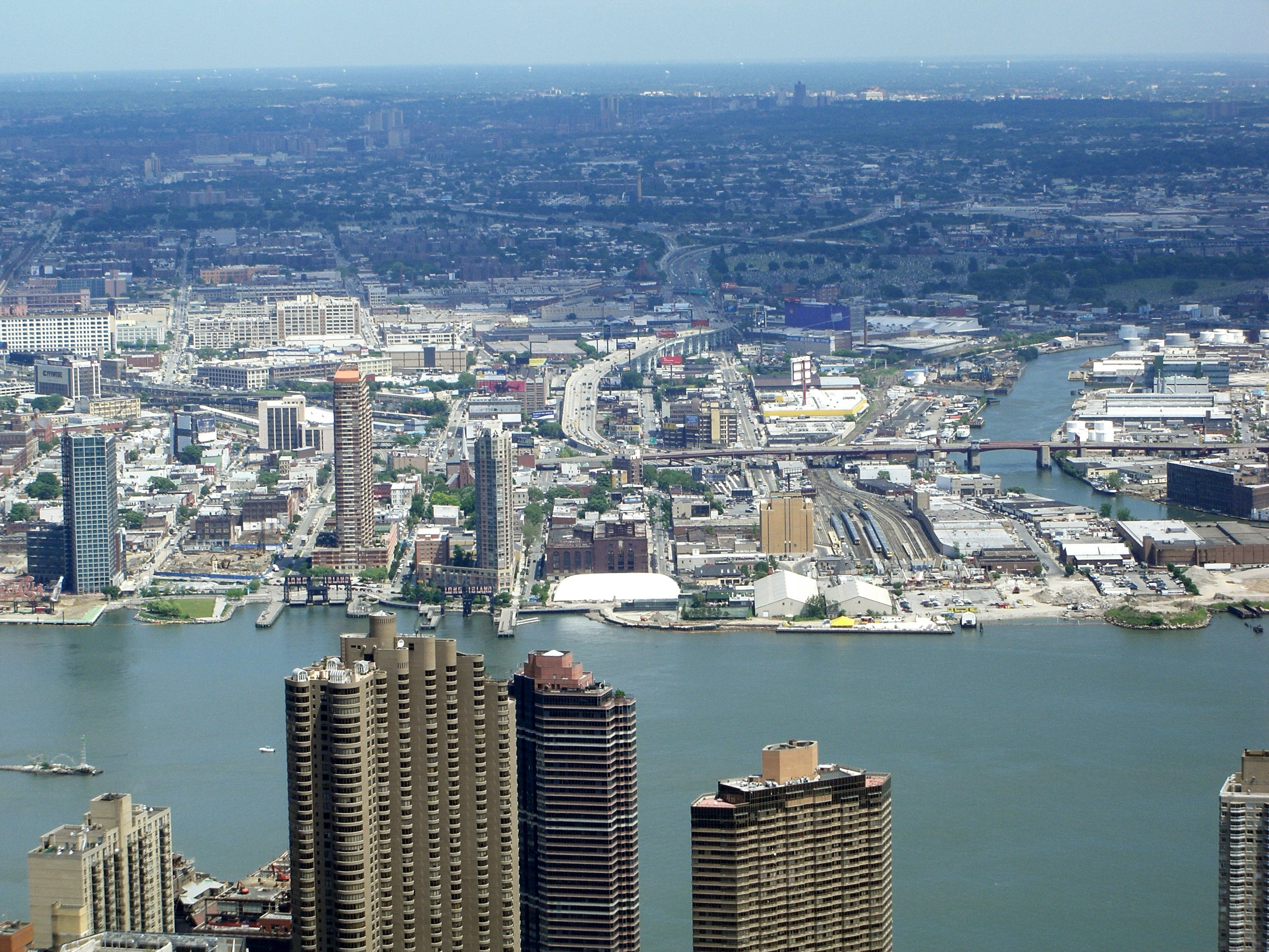 East River und Newtown Creek